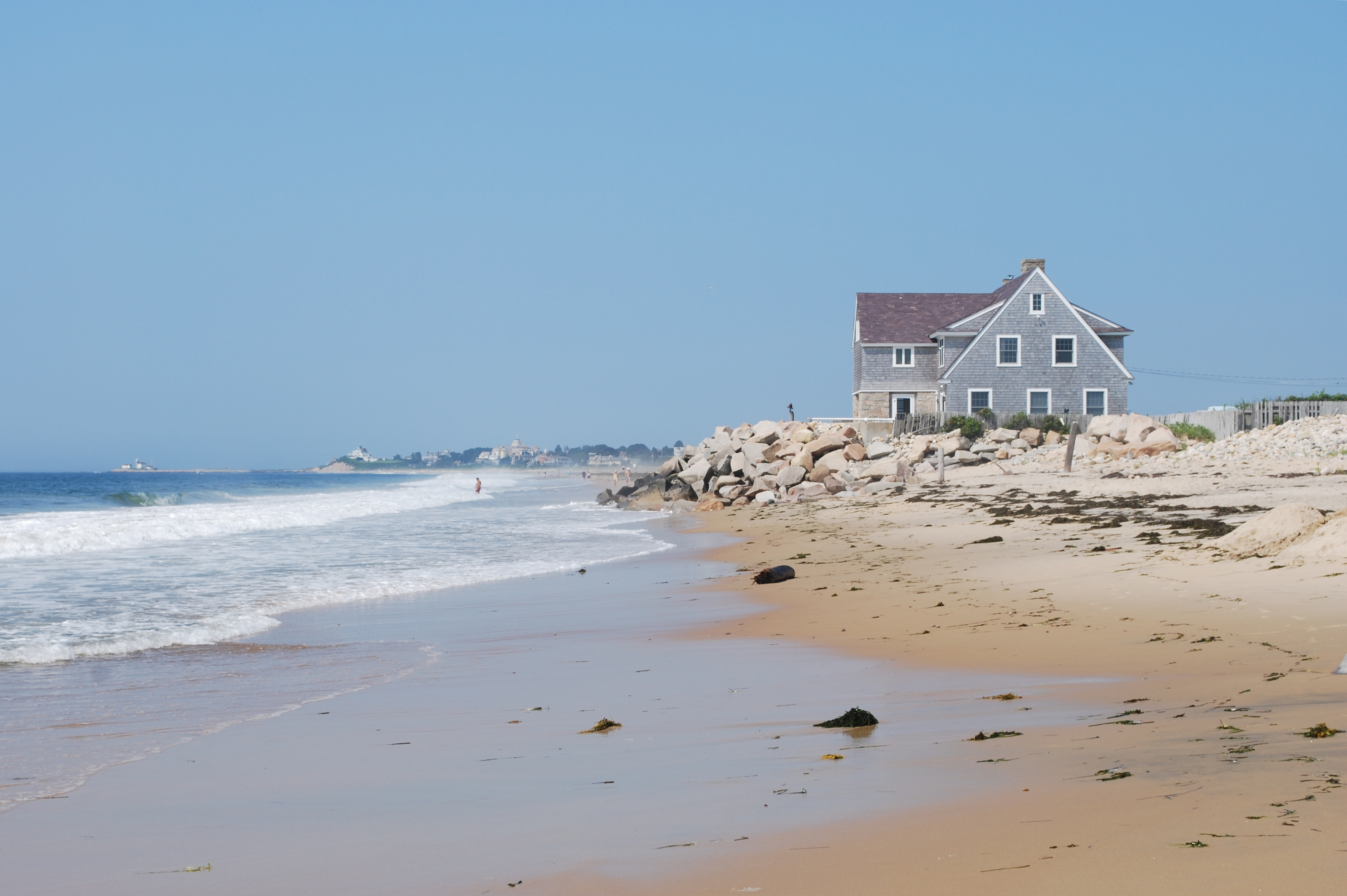 Beaches houses on the western side of Misquamicut Beach, Westerly, Rhode Island.